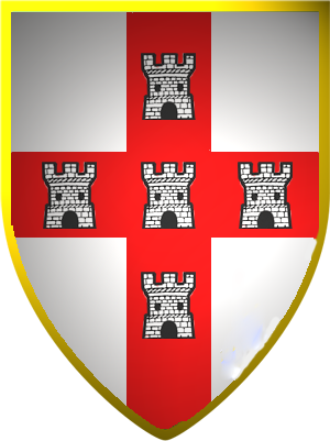 Coat of arms of Vukovic noble family